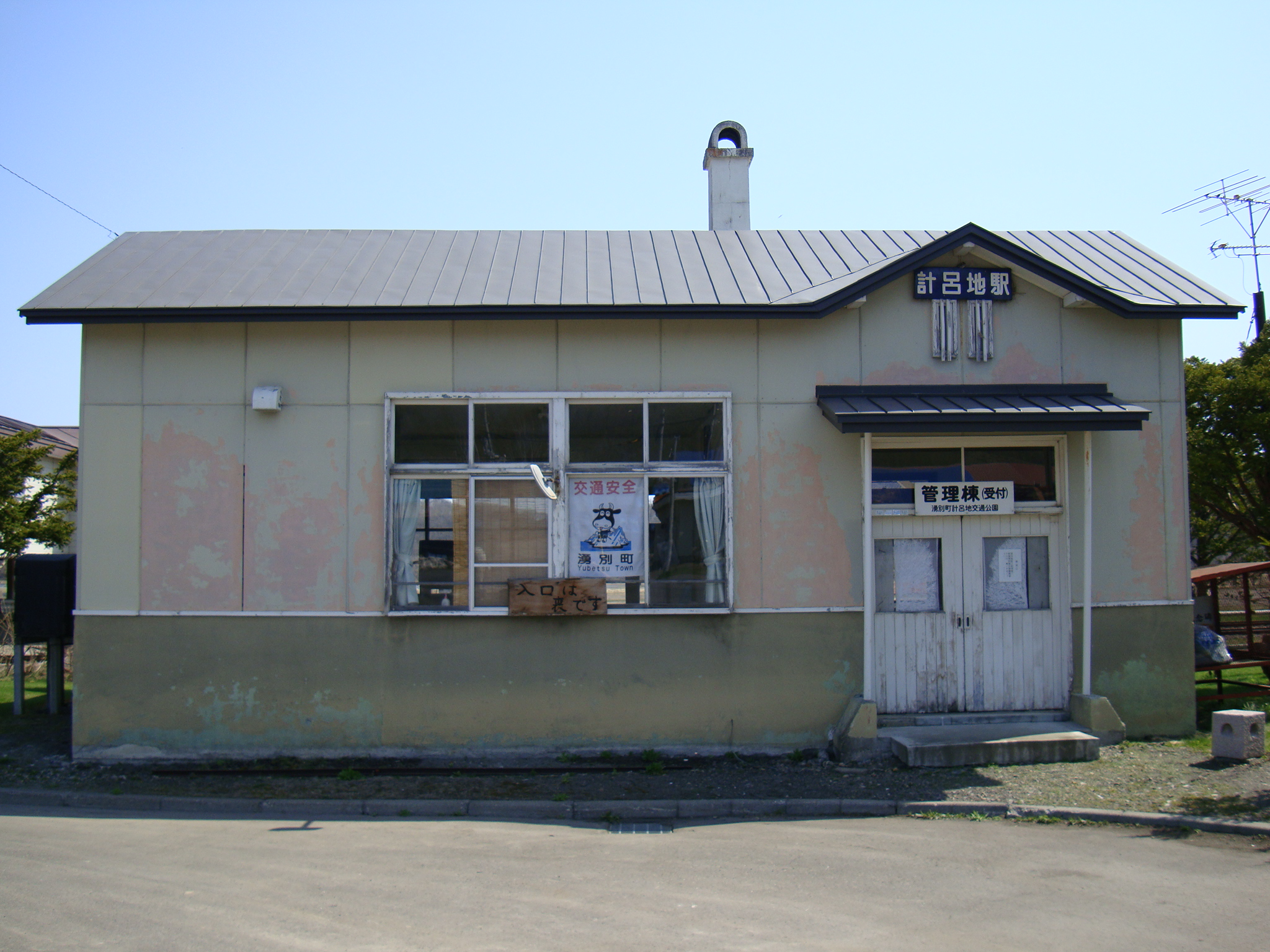 Kerochi Railway Park, formerly Kerochi Station on Yumo Line